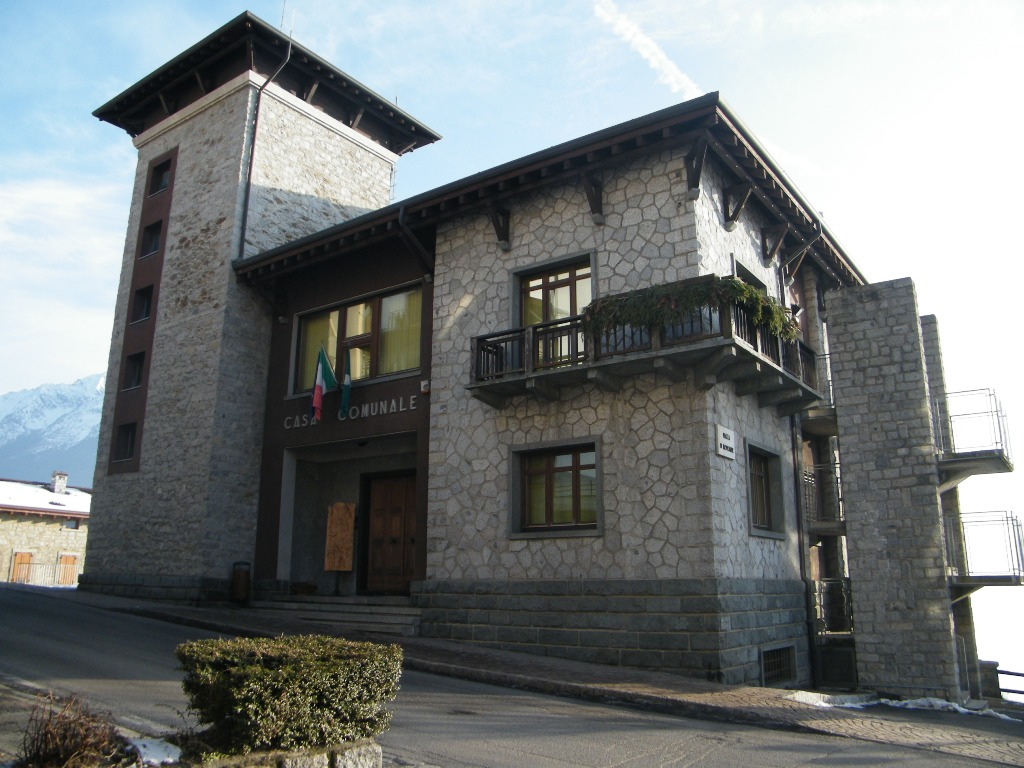 Townhall. Cevo, Val Camonica.